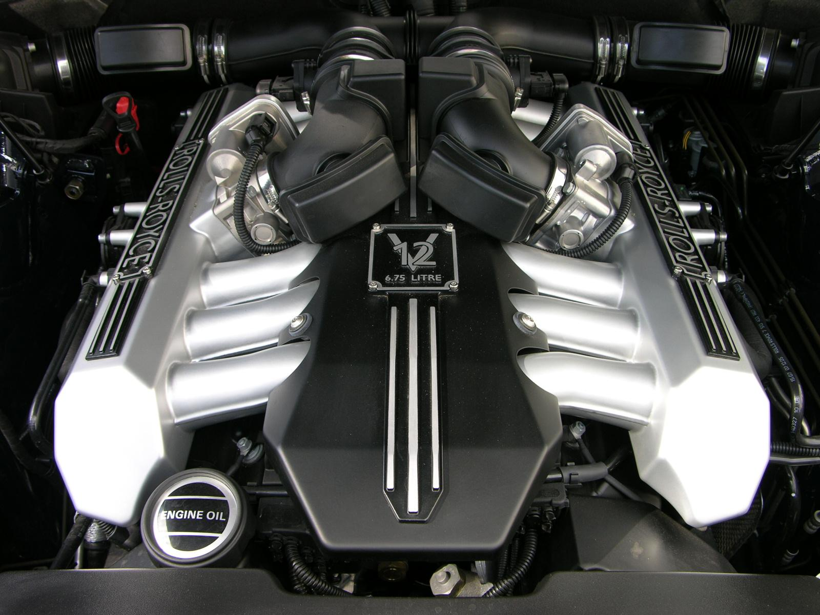 2007 Rolls Royce Phantom